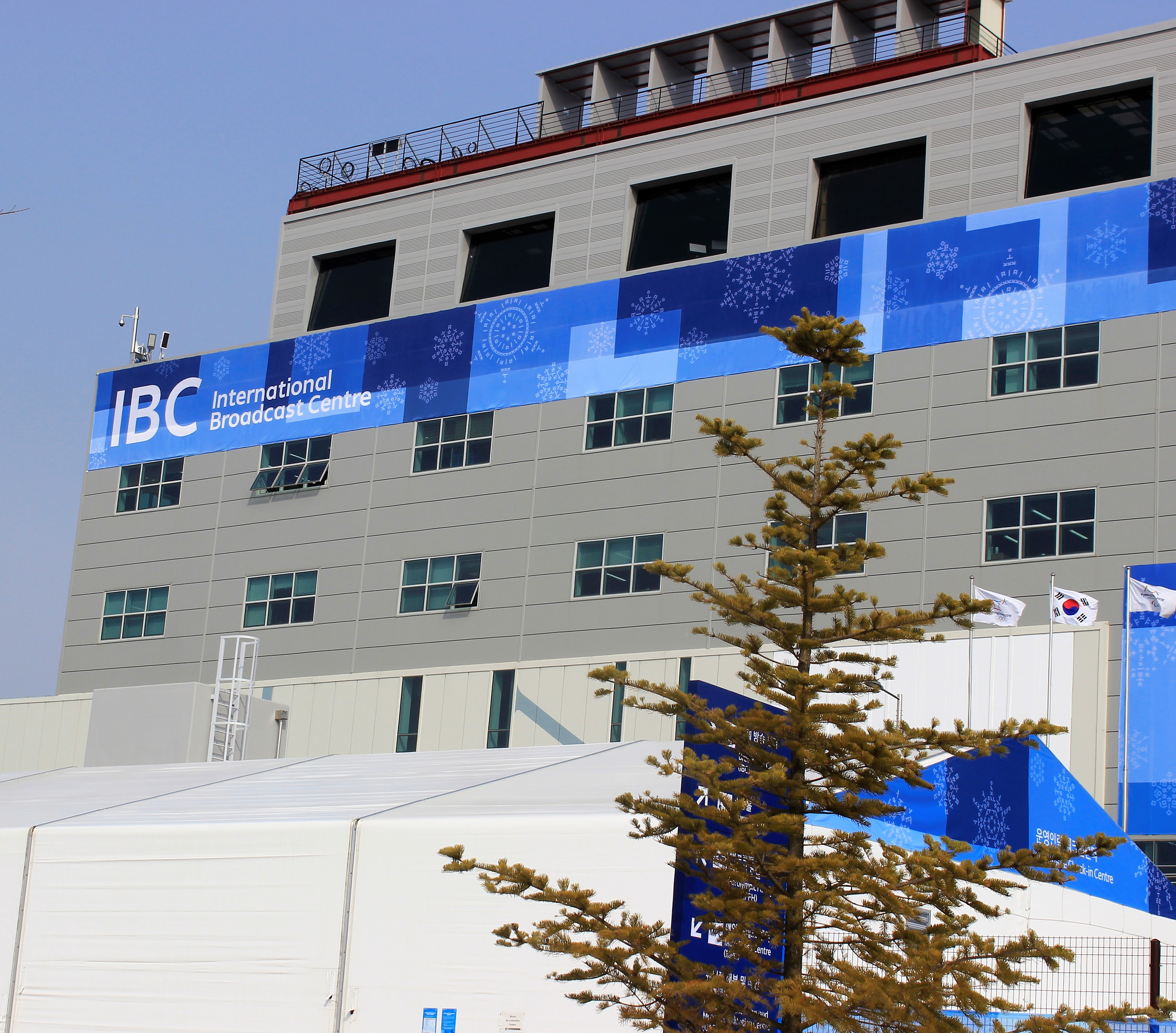 Pyeongchang IBC